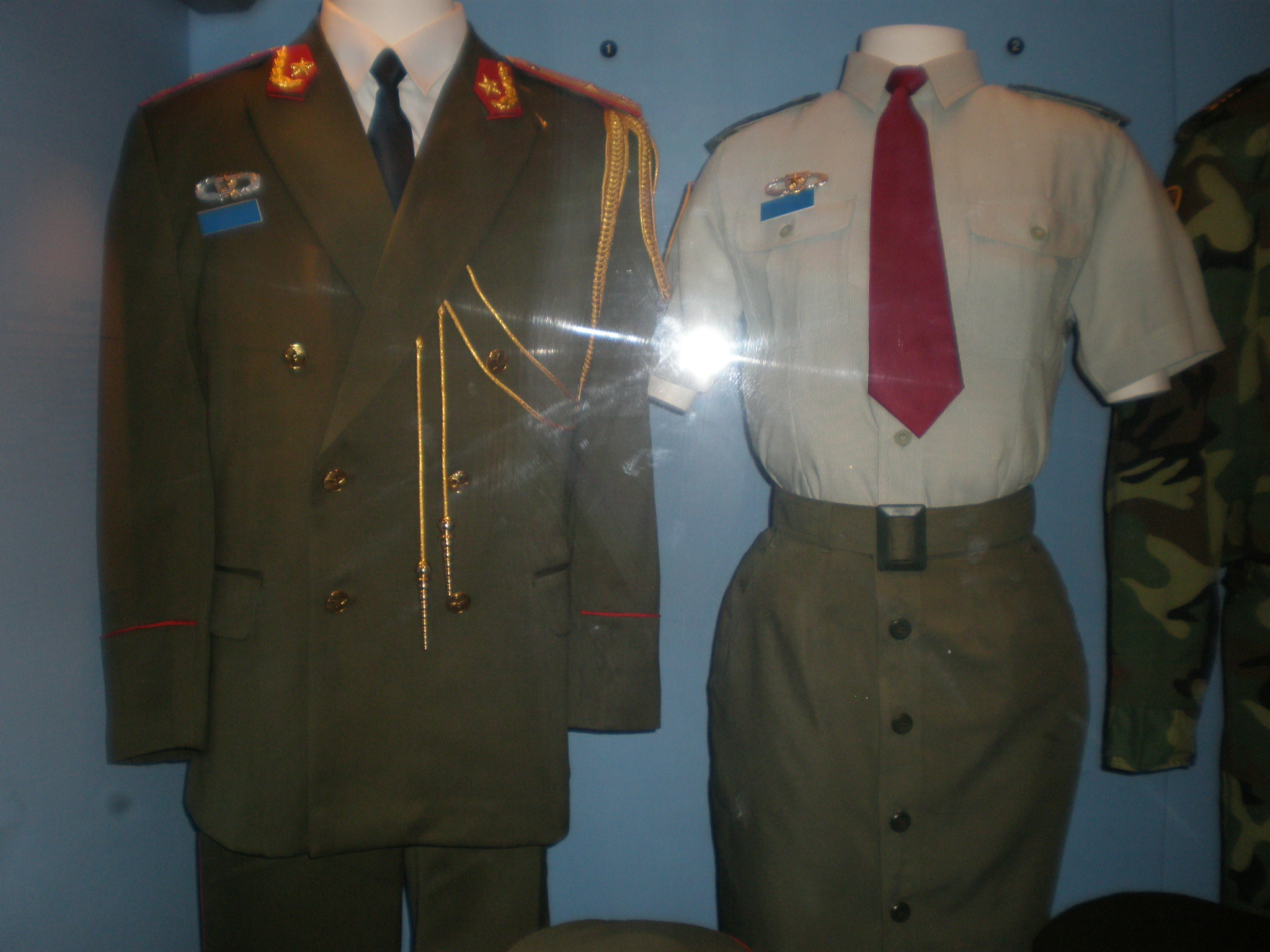 Ceremonial full dress uniform of a PLA major general (left) and service dress of a PLA female first lieutenant on display at the Hong Kong Museum of Coastal Defence.